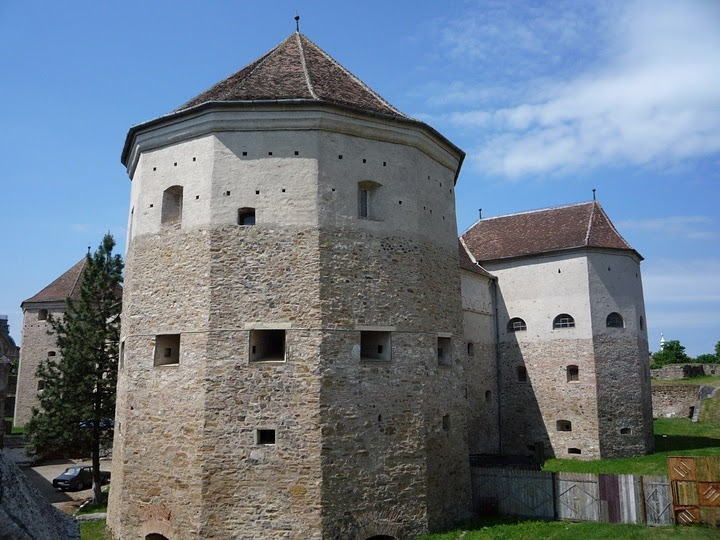 the Prison Bastle of the Făgăraș (Fogaras, Fogarasch) Castle in Romania with the former Gate Bastle on the right